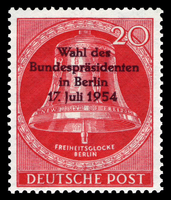 Election of the German President in Berlin, 1954 Graphics by Leon Schnell Ausgabepreis: 20 Pfennig First Day of Issue / Erstausgabetag: 17. Juli 1954 Michel-Katalog-Nr: 118 (Berlin)